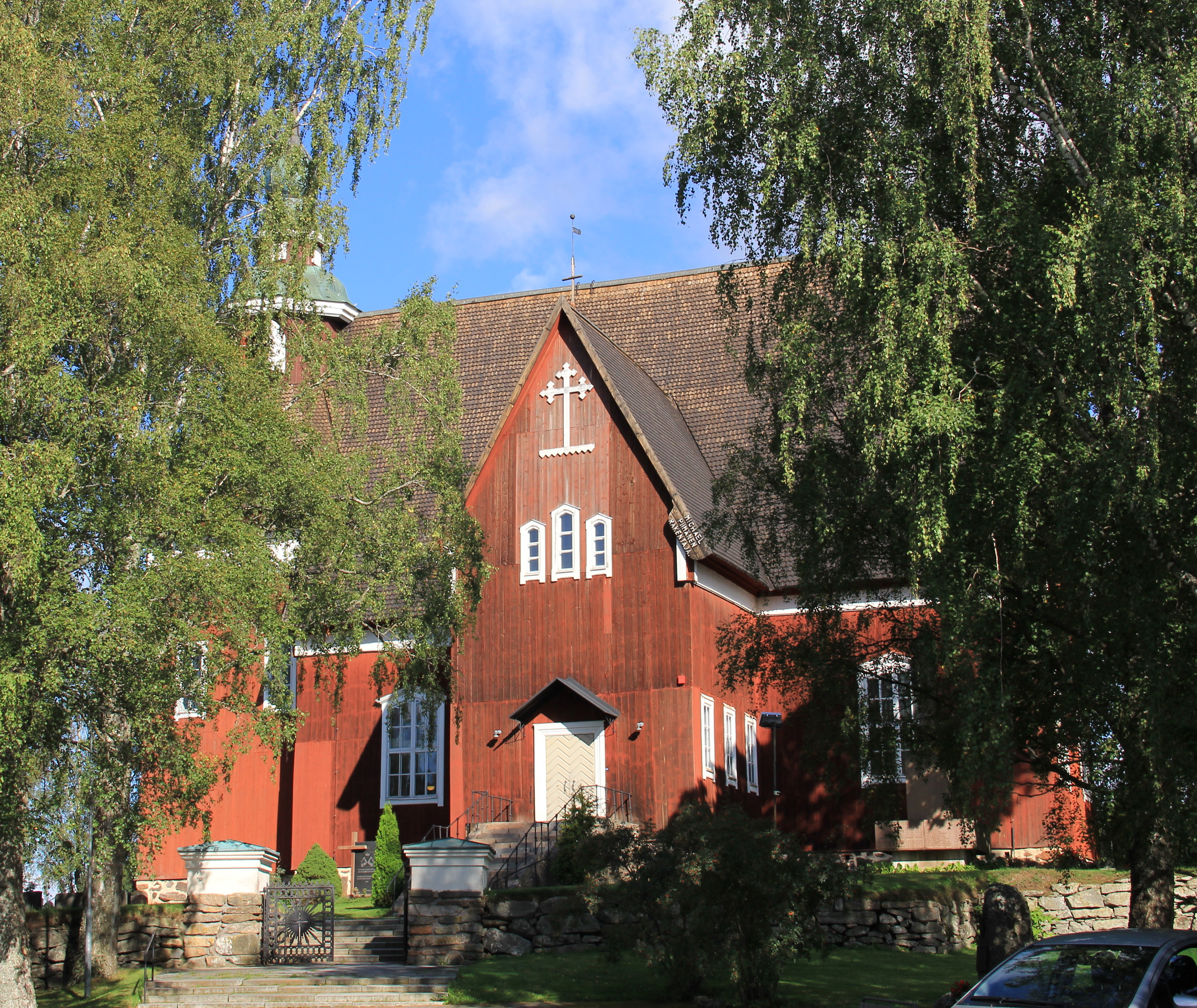 Yläne Church, Yläne, Pöytyä, Finland, is a wooden church completed in 1782. It was built by Mikael Piimänen. The chuch's exterior originates from the 1780s. - Seen from south.